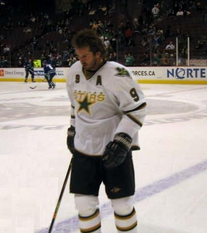 2006 Mike Modano, Dallas Stars Center. Mike Modano scored 10 points in 16 games played during 3 Olympics.